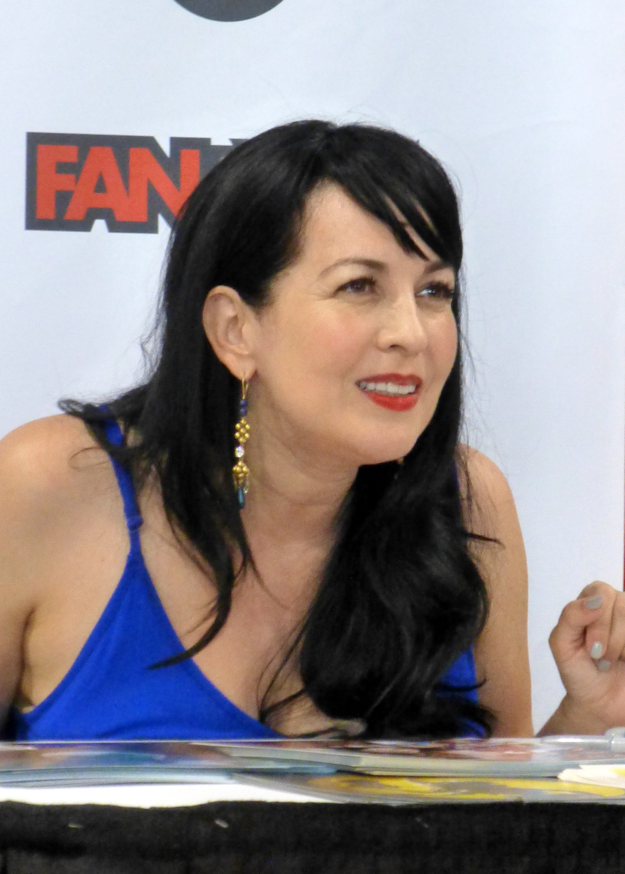 Fan Expo Canada in Toronto in 2015.